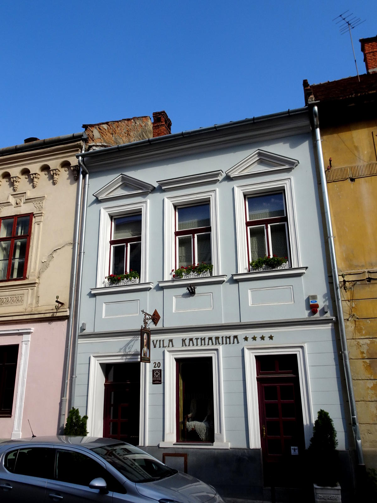 Poarta Schei street in Brasov, house number 20